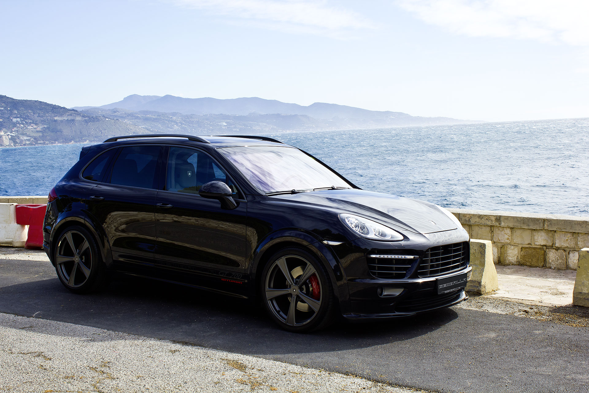 Picture was shot near Monaco in 2012